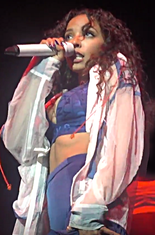 Maroon 5 tour